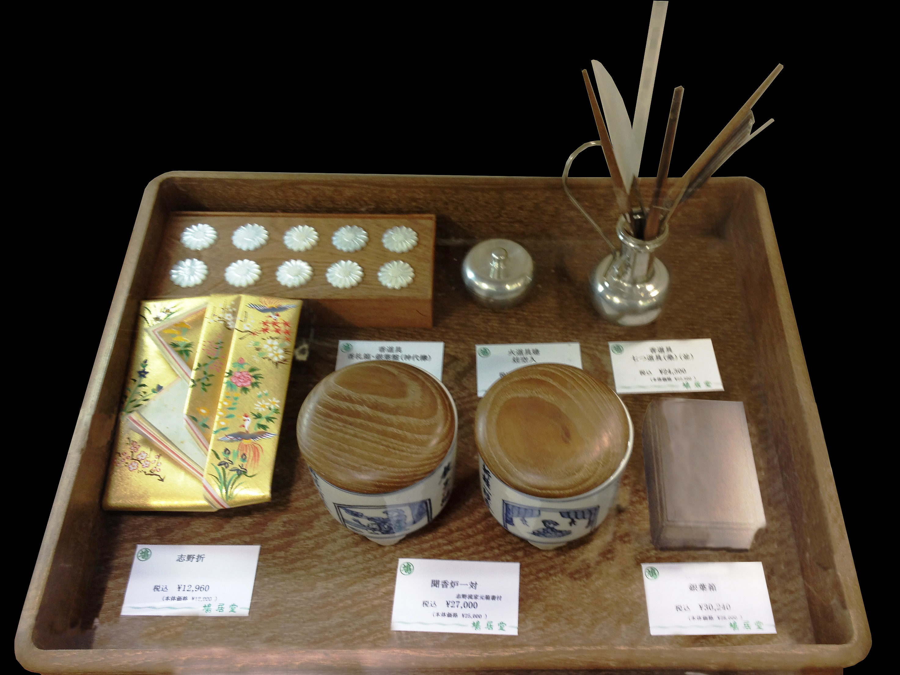 Utensils (香道具) used for Japanese incense ceremony.Upper 香道具(Kōdōgu)、香札箱(Kōfuda bako)・銀葉盤(Ginyō ban)（神代欅）(Jindai keyaki) 火道具建(Hidōgu tate)、炷空入(Takigara ire) 香道具(Kōdōgu)、七つ道具(Nanatsu dōgu)（桑）(Kuwa)（並）(Nami) Lower 志野折(Shino ori), 聞香炉一対(Kikigōro ittsui), 銀葉箱(Ginyō bako)